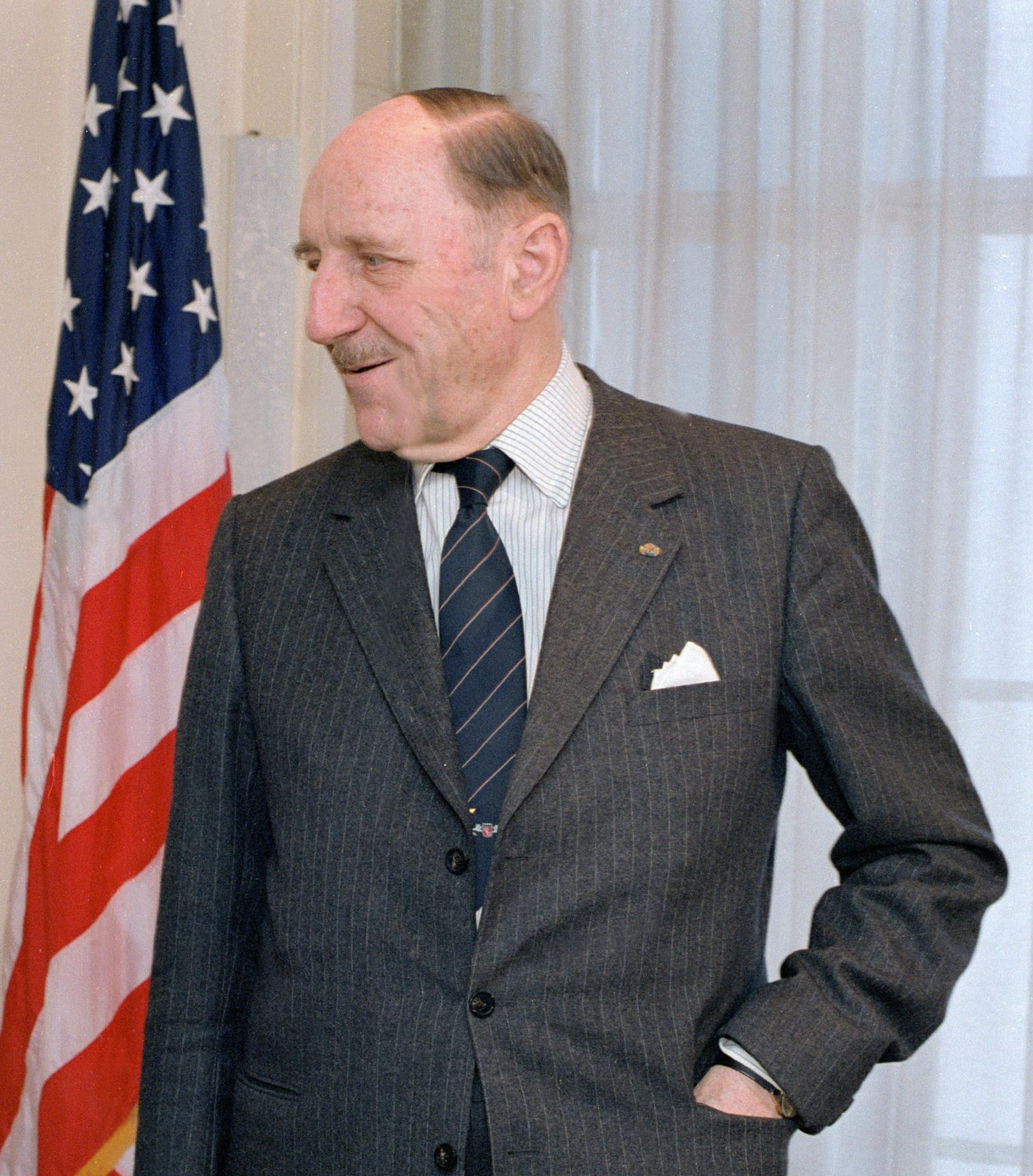 Joseph Luns in the Pentagon, Room 3E912.